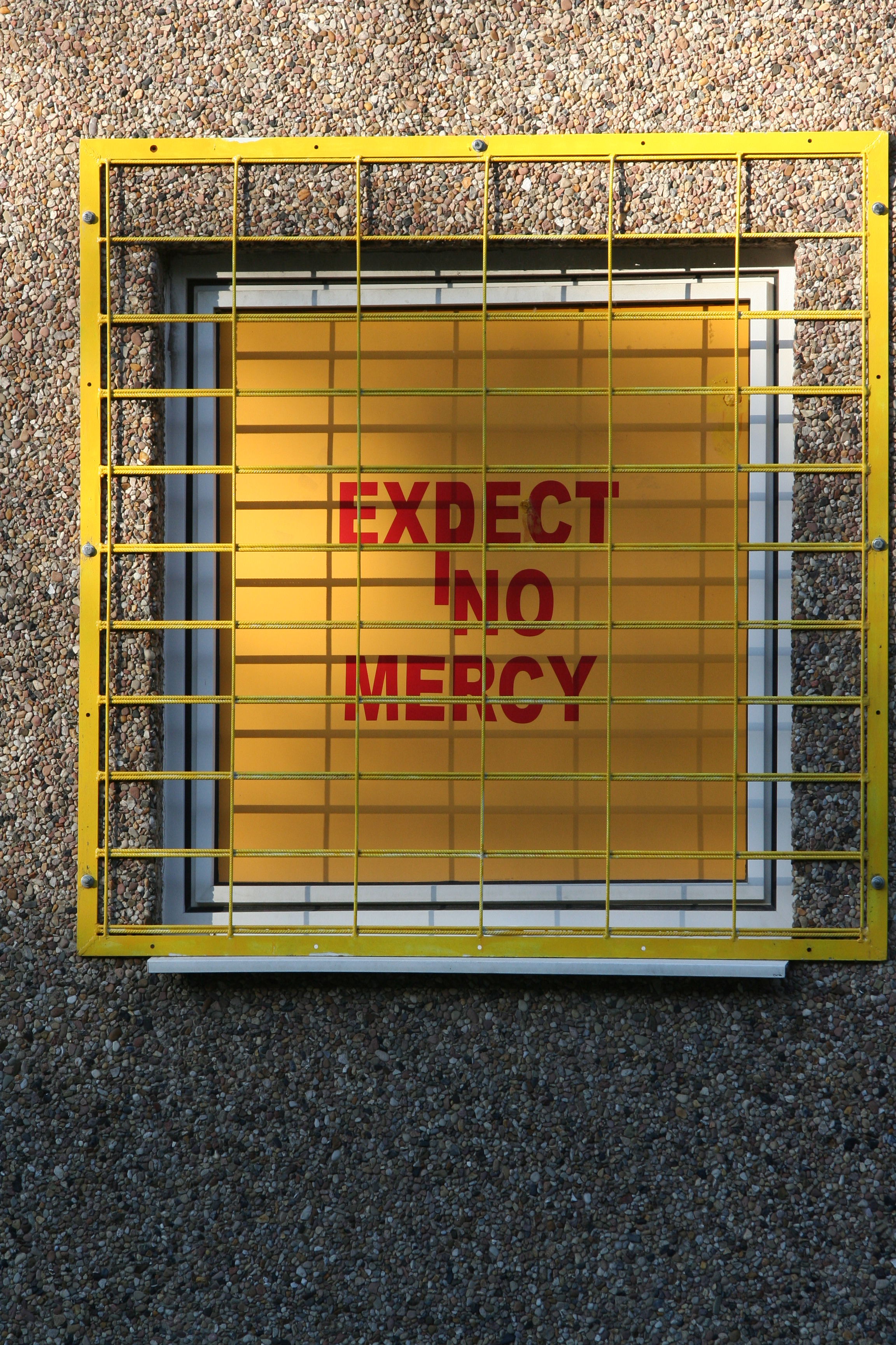 "Expect no Mercy" shown at the Clubhouse of the Bandidos MC, Chapter Berlin